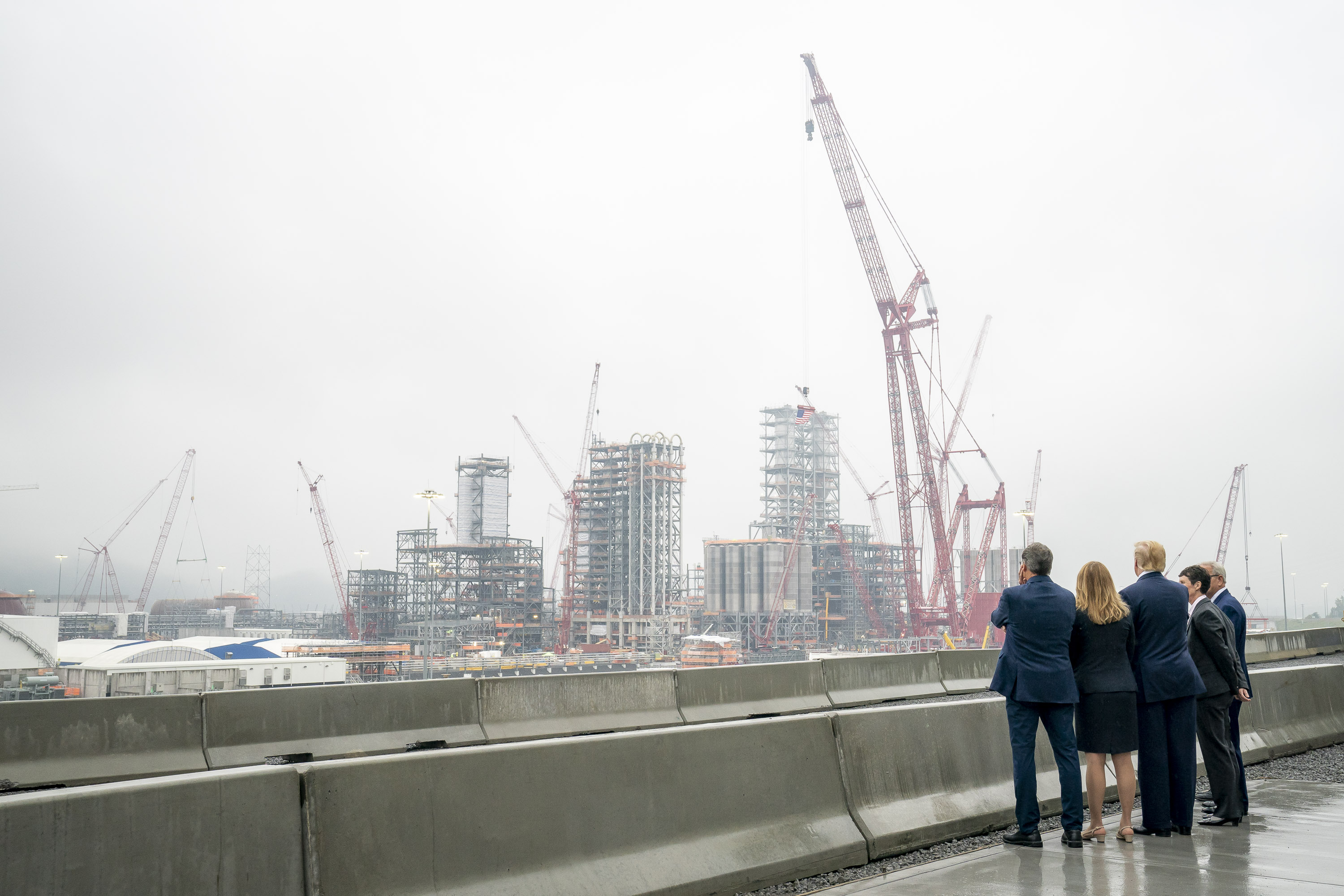 President Donald J. Trump is shown the expansion construction underway as he tours the Shell Pennsylvania Petrochemicals Complex Tuesday, Aug. 13, 2019, in Monaca, Pa. (Official White House Photo by Tia Dufour)